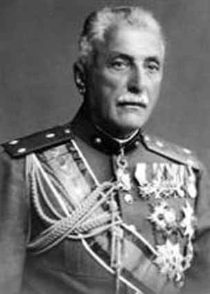 General Sava Savov Bulgarian military leader and politician (1865-1942)